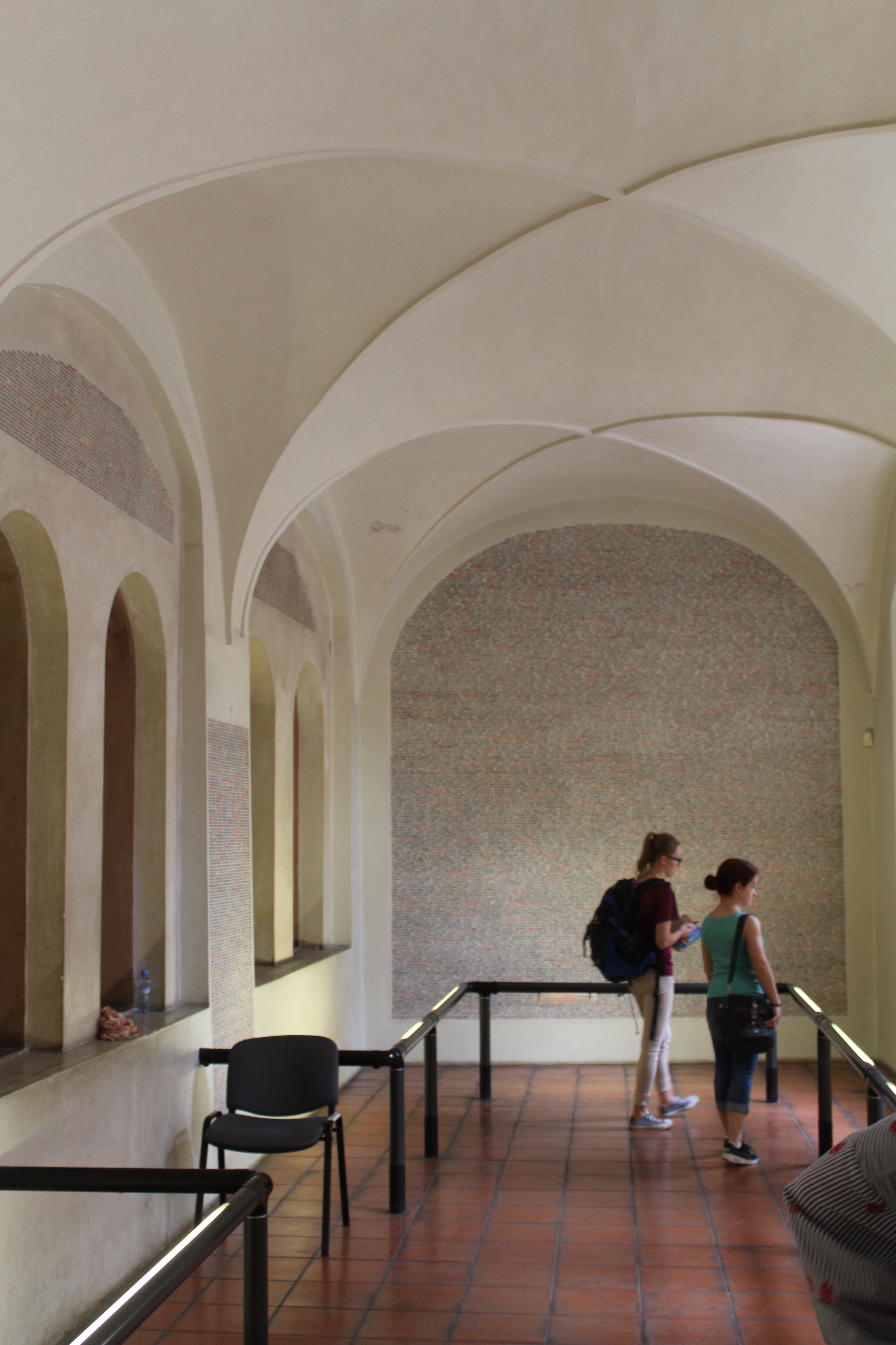 Interior of Pinkas Synagogue. he Pinkas Synagogue (Czech: Pinkasova synagoga) is the second oldest surviving synagogue in Prague. Its origins are connected with the Horowitz family, a renowned Jewish family in Prague. Today, the synagogue is administered by the Jewish Museum in Prague and commemorates about 78,000 Czech Jewish victims of the Shoah.